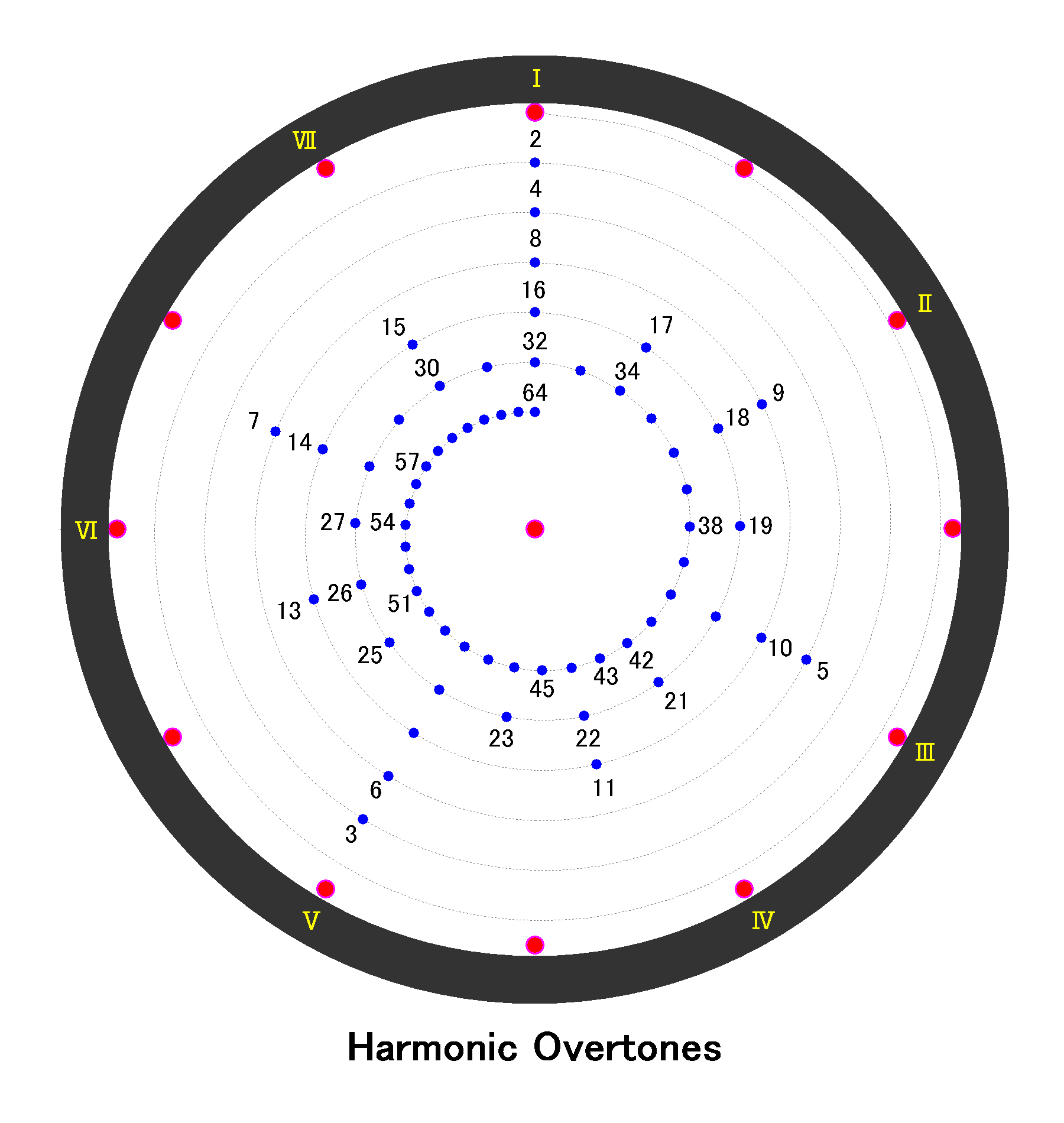 Harmonic Overtones Visualized for music